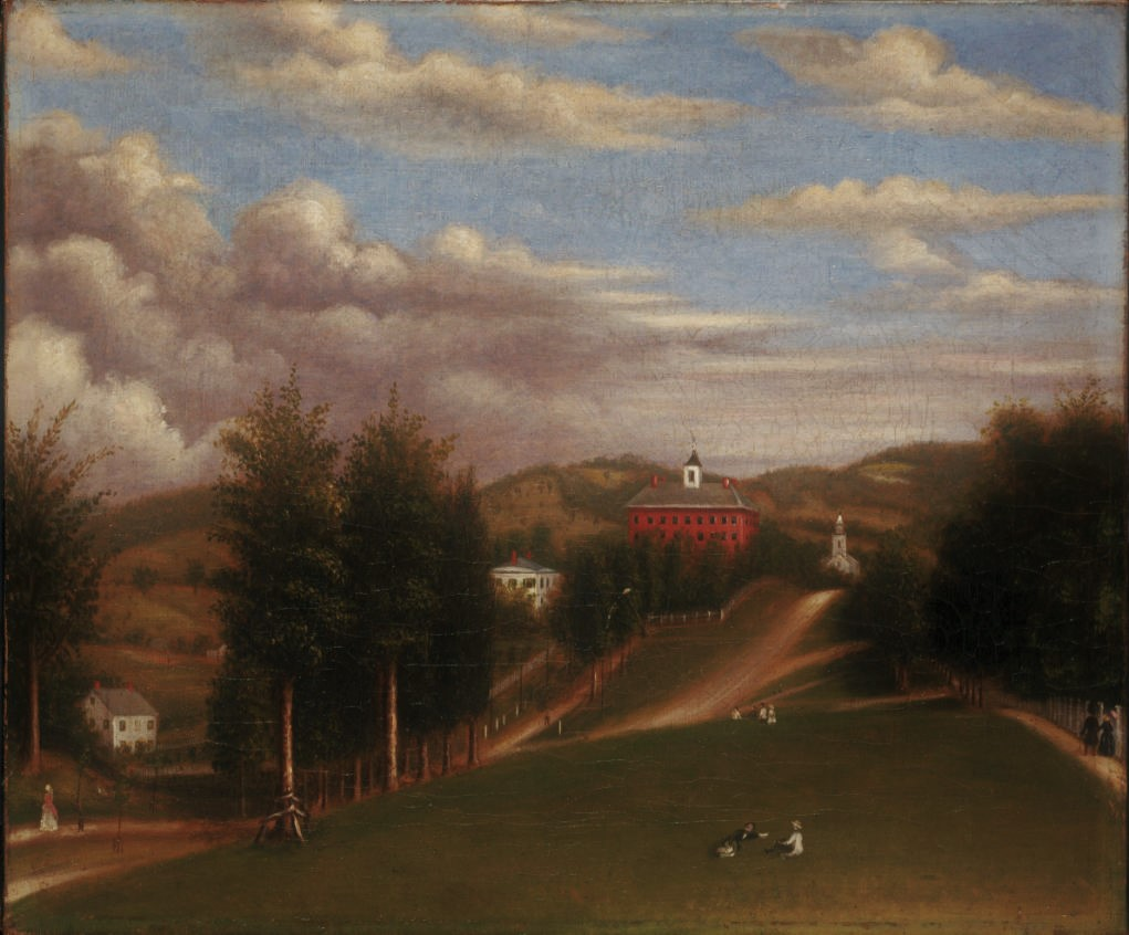 Depiction of West College, which composed the entirety of Williams College in its early years.